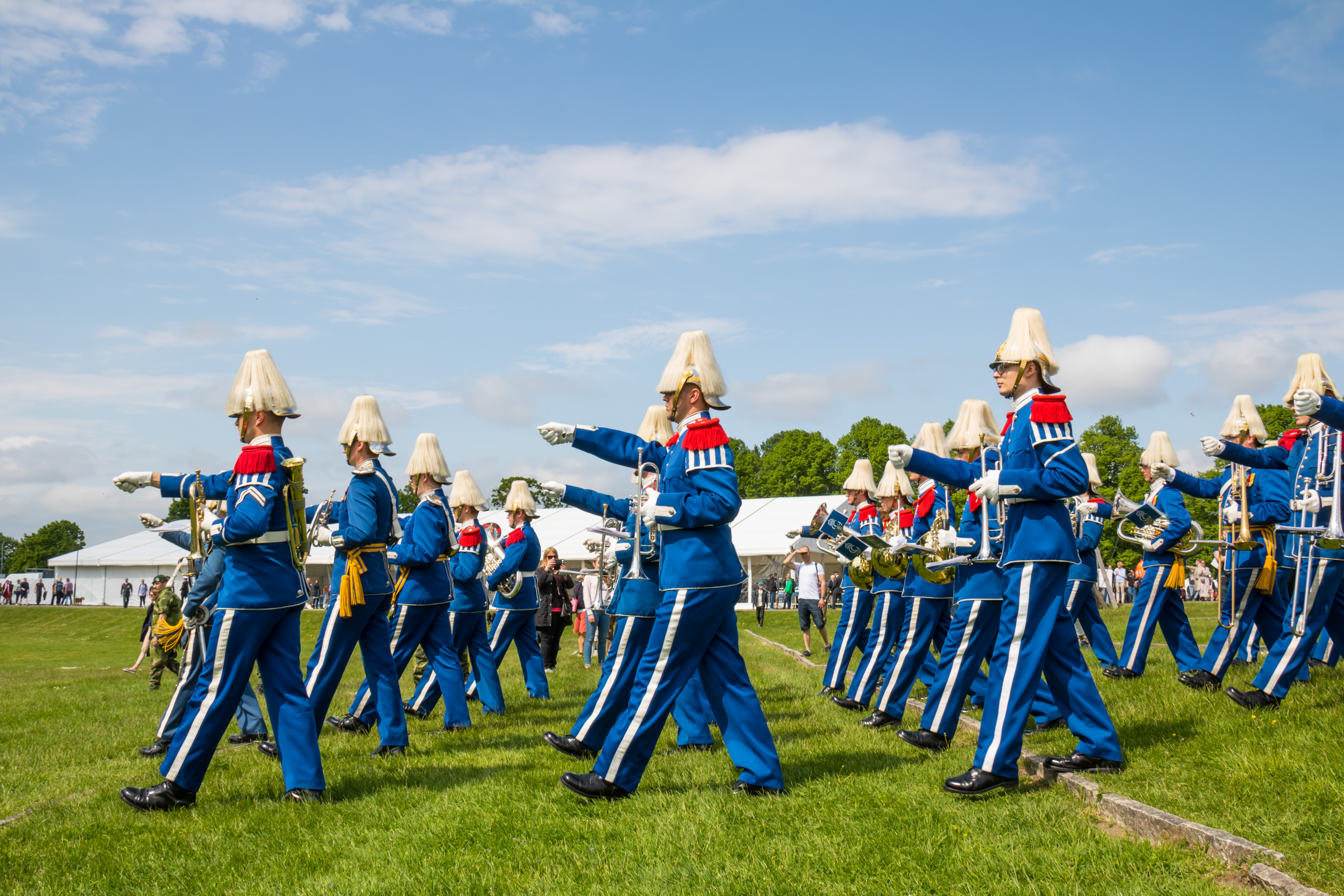 The Life Guards' Dragoon Music Corps at the Swedish Veteran's Day in 2016.